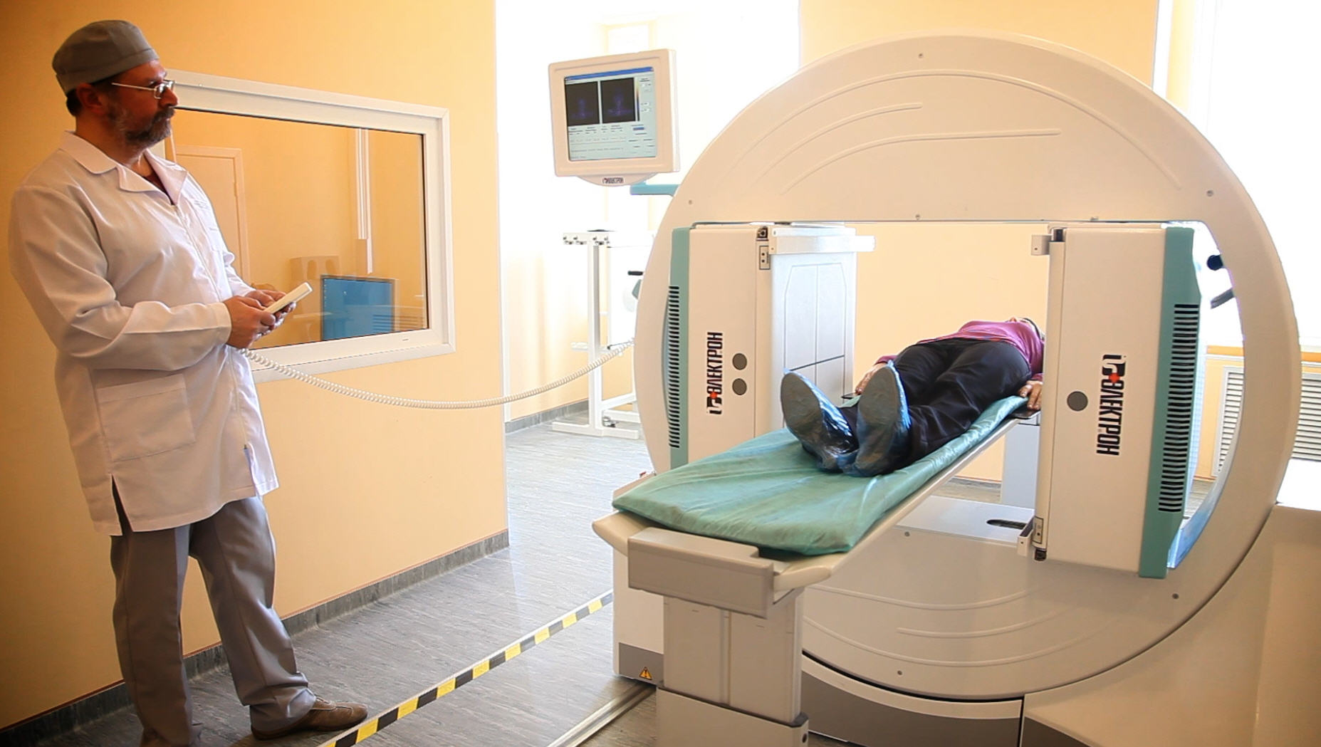 Complex of Isotope Diagnostics